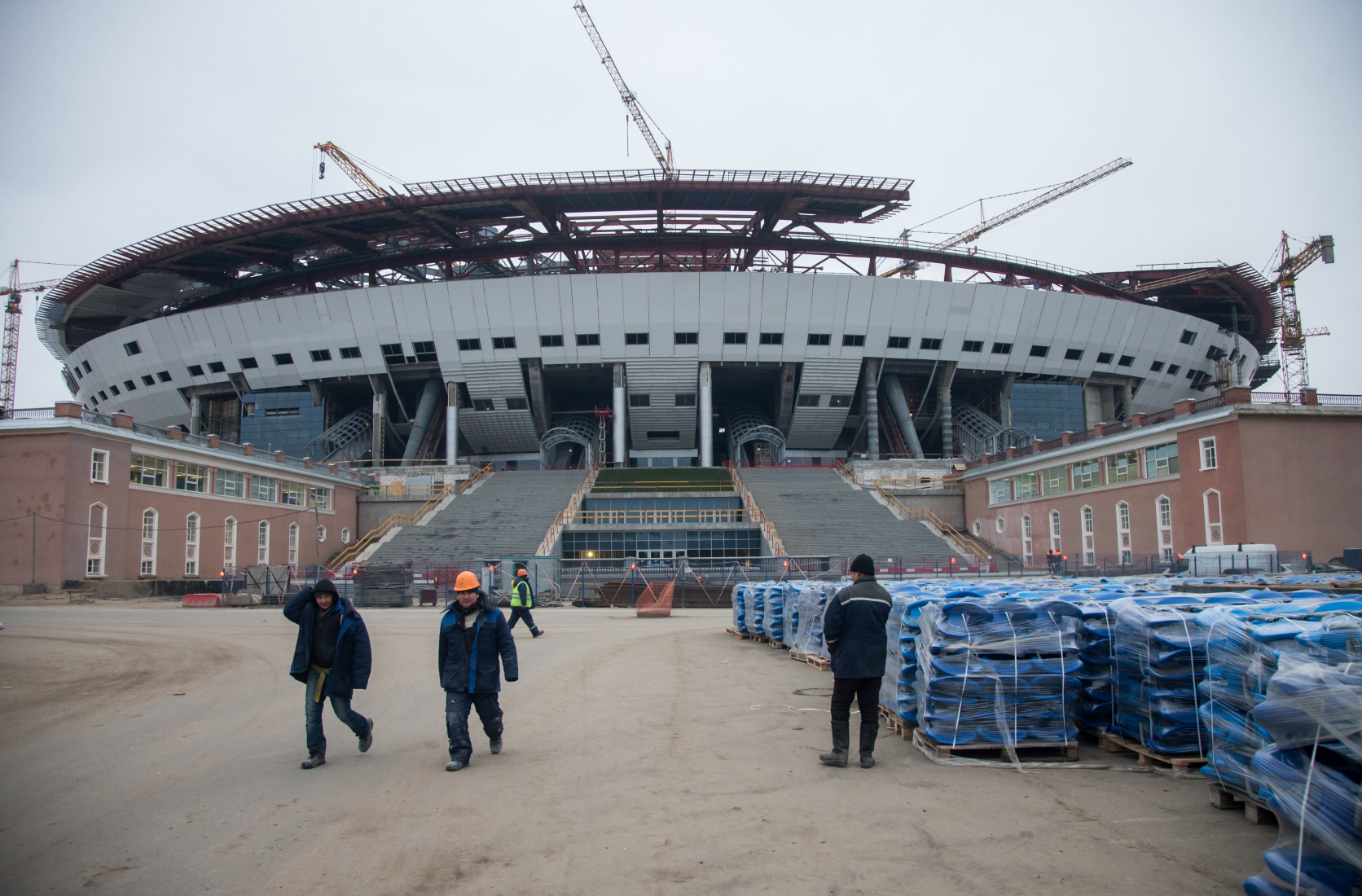 The football stadium at western part of Krestovsky island.